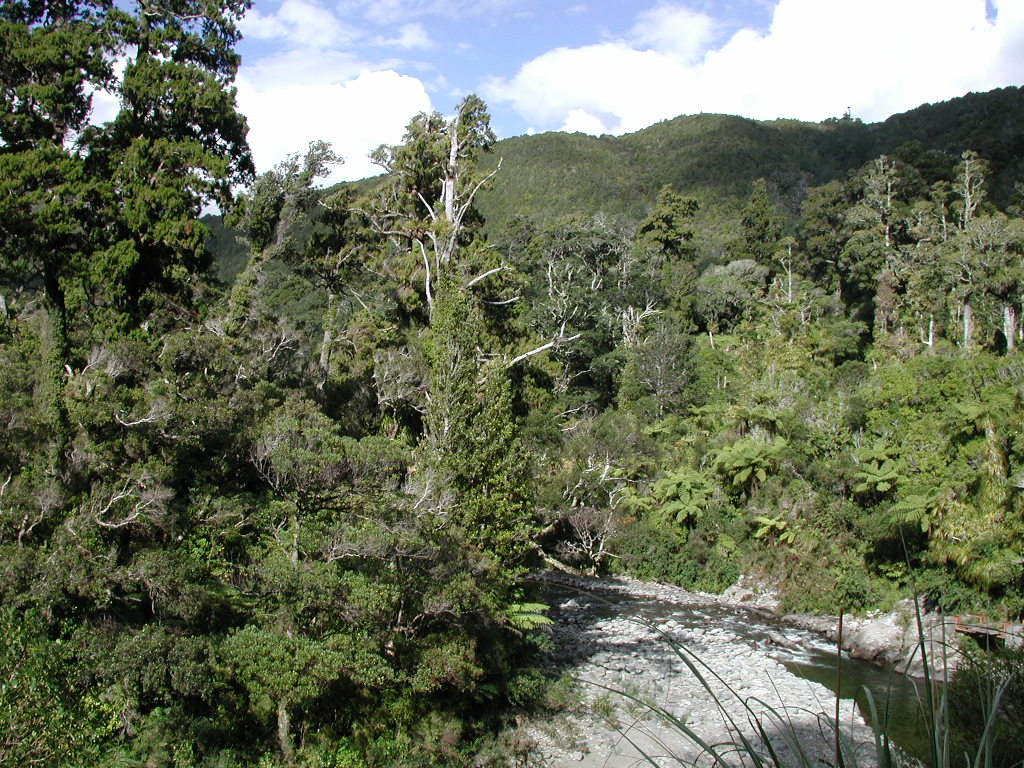 Hutt River viewed from flume bridge, Kaitoke Park, Upper Hutt, surrounded by native bush with rimu (Dacrydium cupressinum) making up the larger trees.